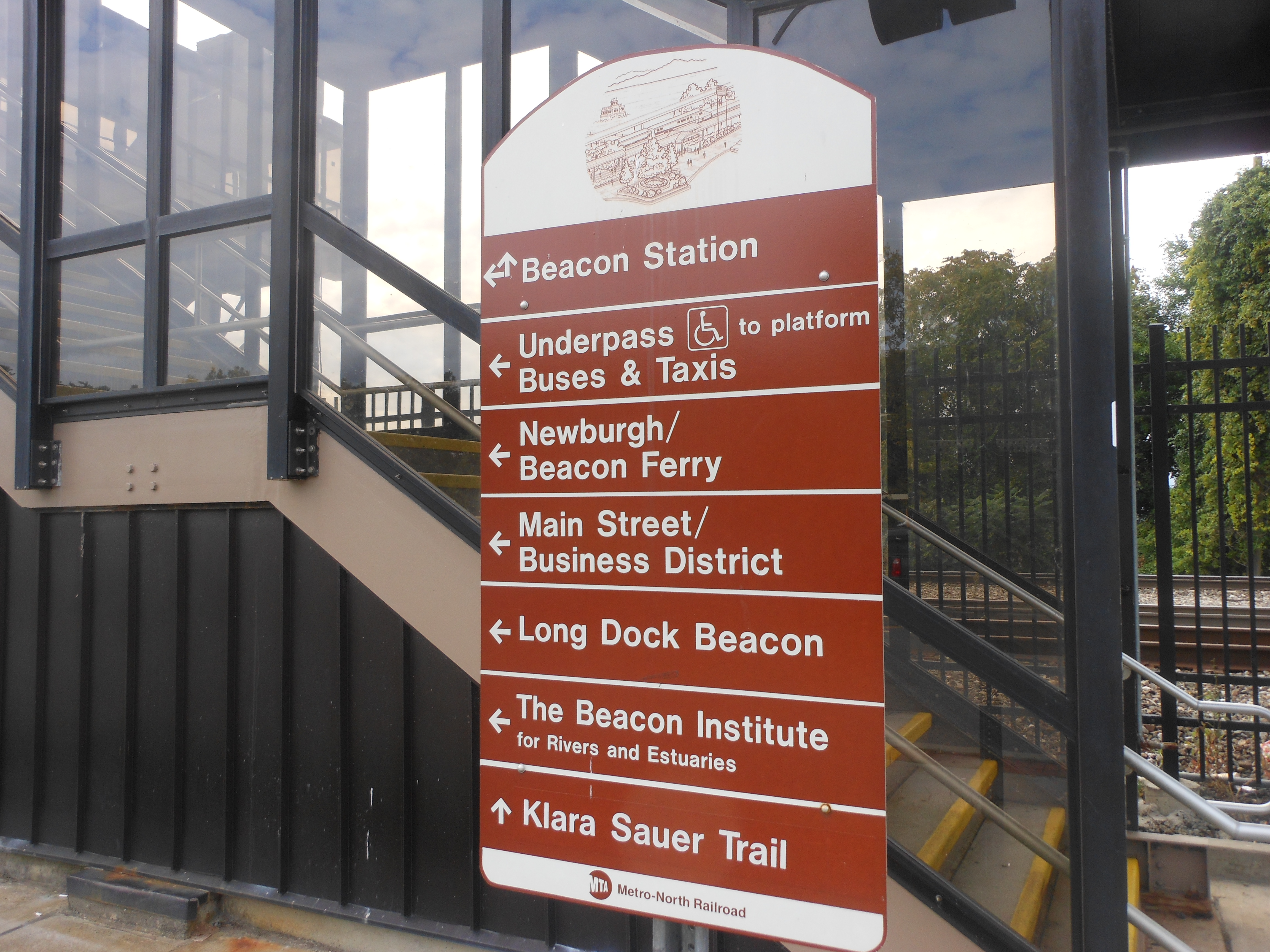 Beacon, NY Train Station